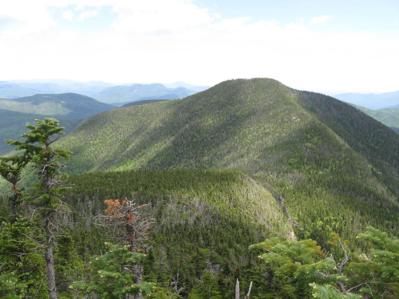 The East Peak Mount Osceola as seen from the main summit of Mount Osceola in the White Mountains (New Hampshire).